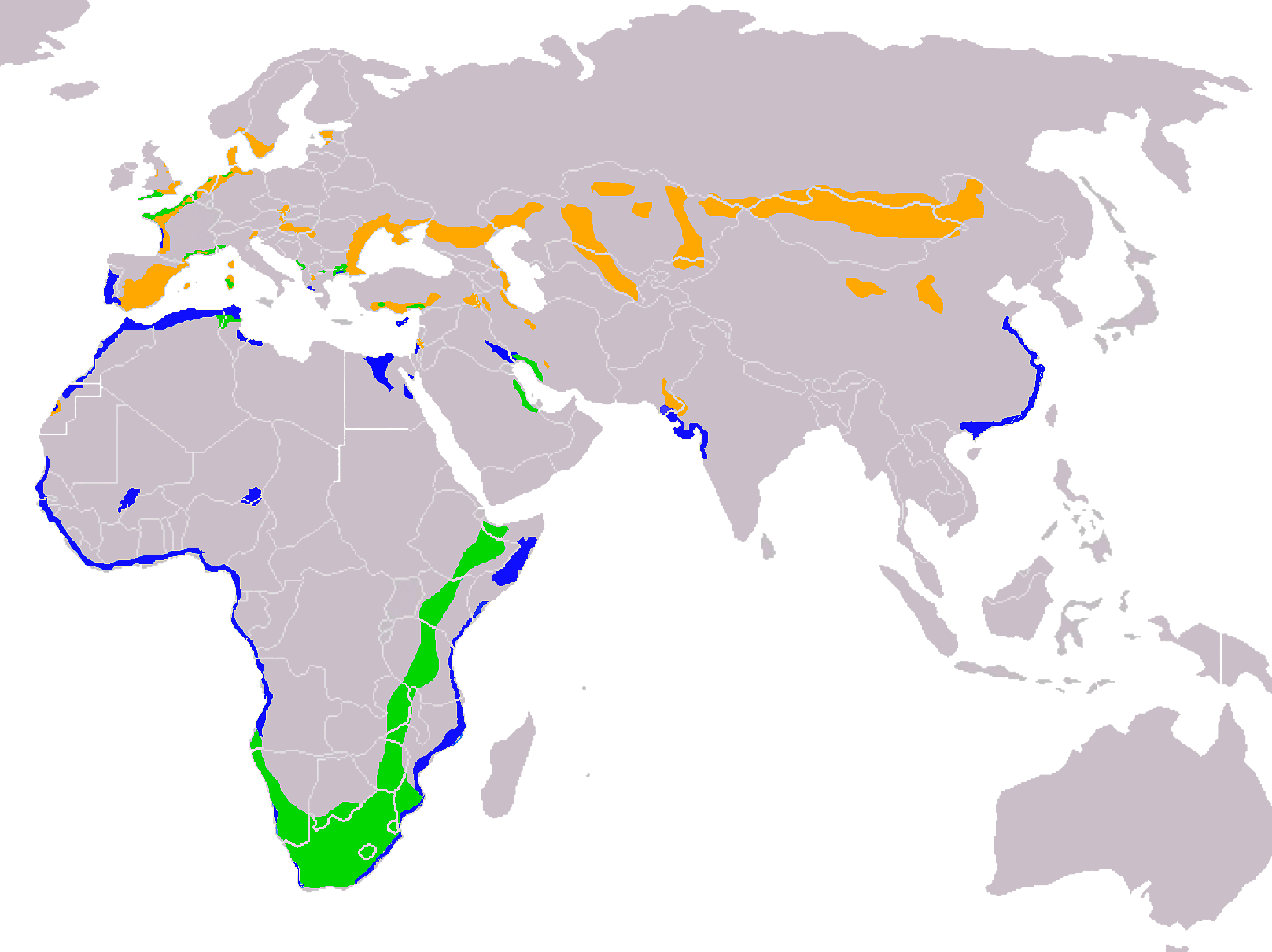 Pied Avocet (Recurvirostra avosetta) distribution map